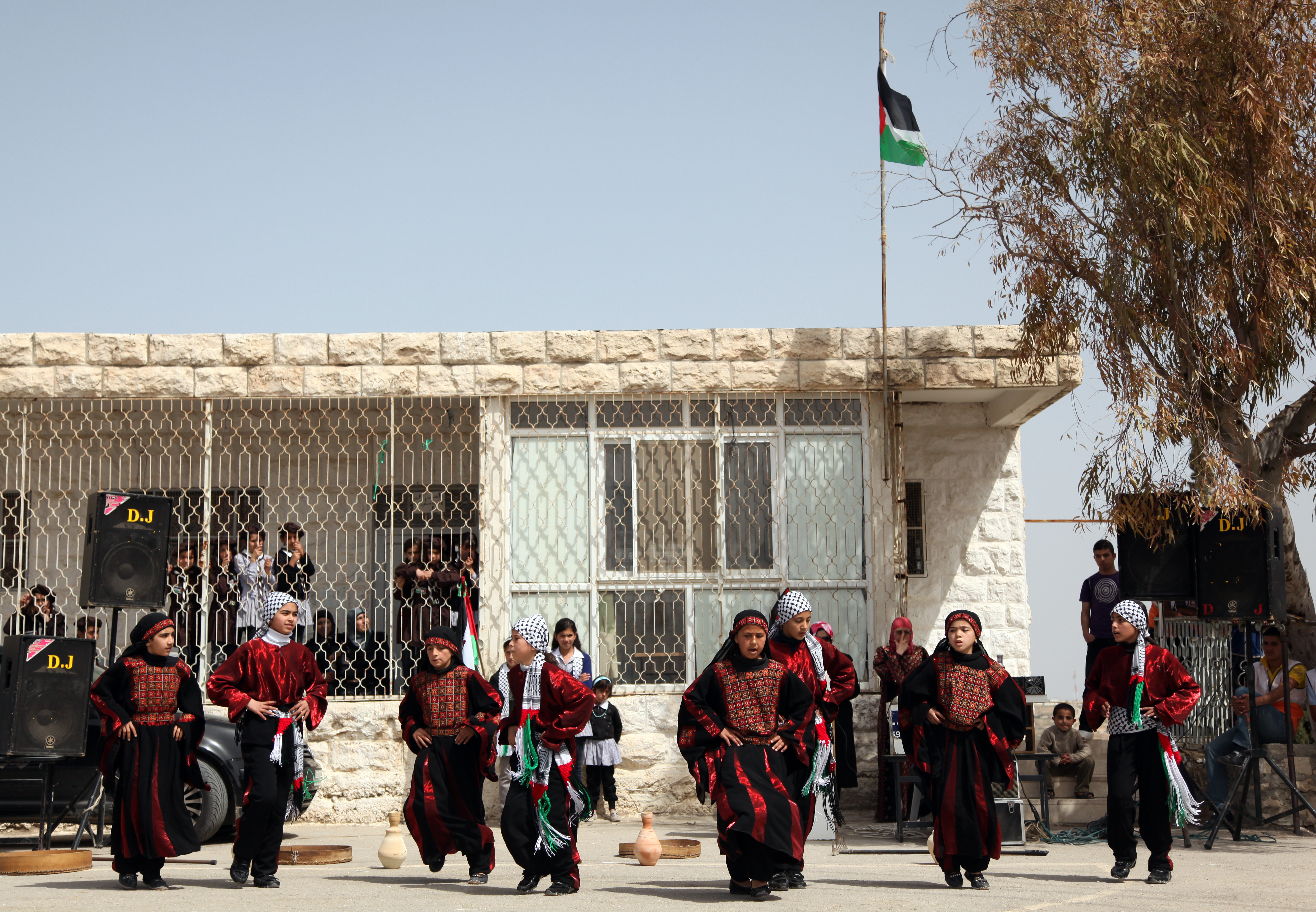 Hebron, Al Shioukh elementary girl’s school. Ouhood Jihad, 10 year old fifth grade student at Al Shioukh Elementary School for Girls.dancing Dabkeh (Palestinian National Folkloric Dance) during the celebrations of the newly built WASH facilities by UNICEF and funded by AusAid. 4 April 2011. - Photographer: Ahed Izhiman.